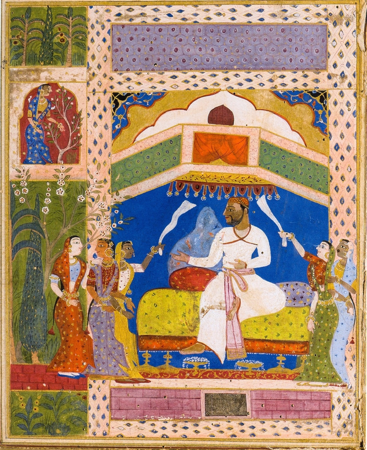 Husain Nizam Shah I on the Throne, Folio from manuscript Ta'rif-i Husain Shahi, Ahmadnagar, ca. 1565-69, Bharat Itihas Sanshodhak Mandal, Pune.